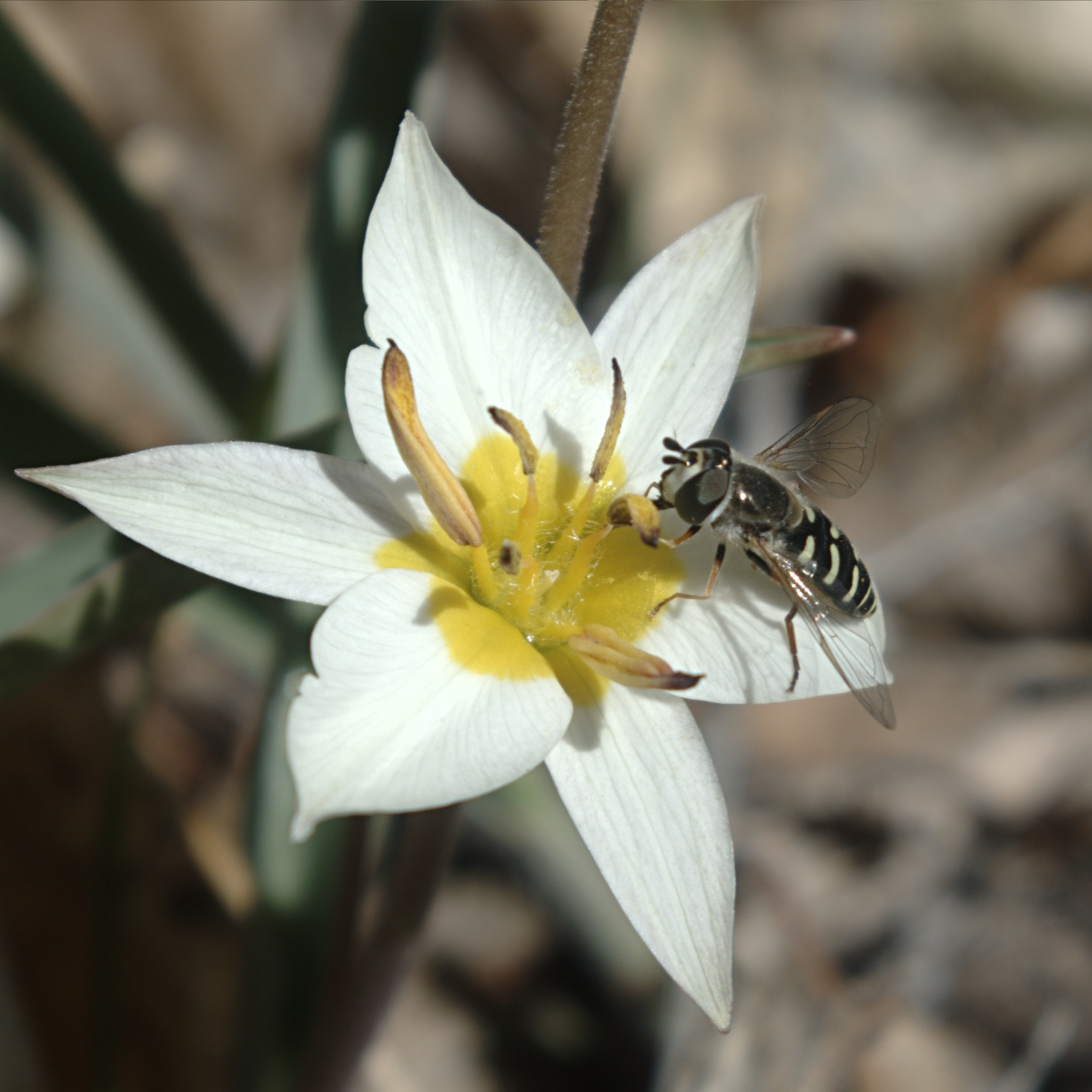 Female Bird Hover Fly, Eupeodes volucris (same individual as File:Eupeodes volucris female back.jpg) on Tulipa turkestanica flower. My yard, Española, New Mexico. Thanks to Ron Hemberger at for ID.